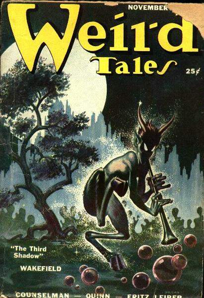 Cover of the pulp magazine Weird Tales